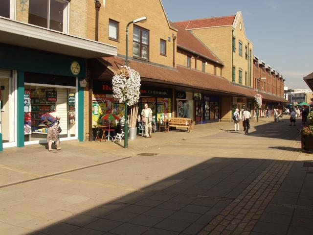 Woodley Shopping Centre. Shopping Centre viewed from near Crockhamwell Road end.